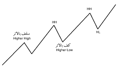 Up Trend